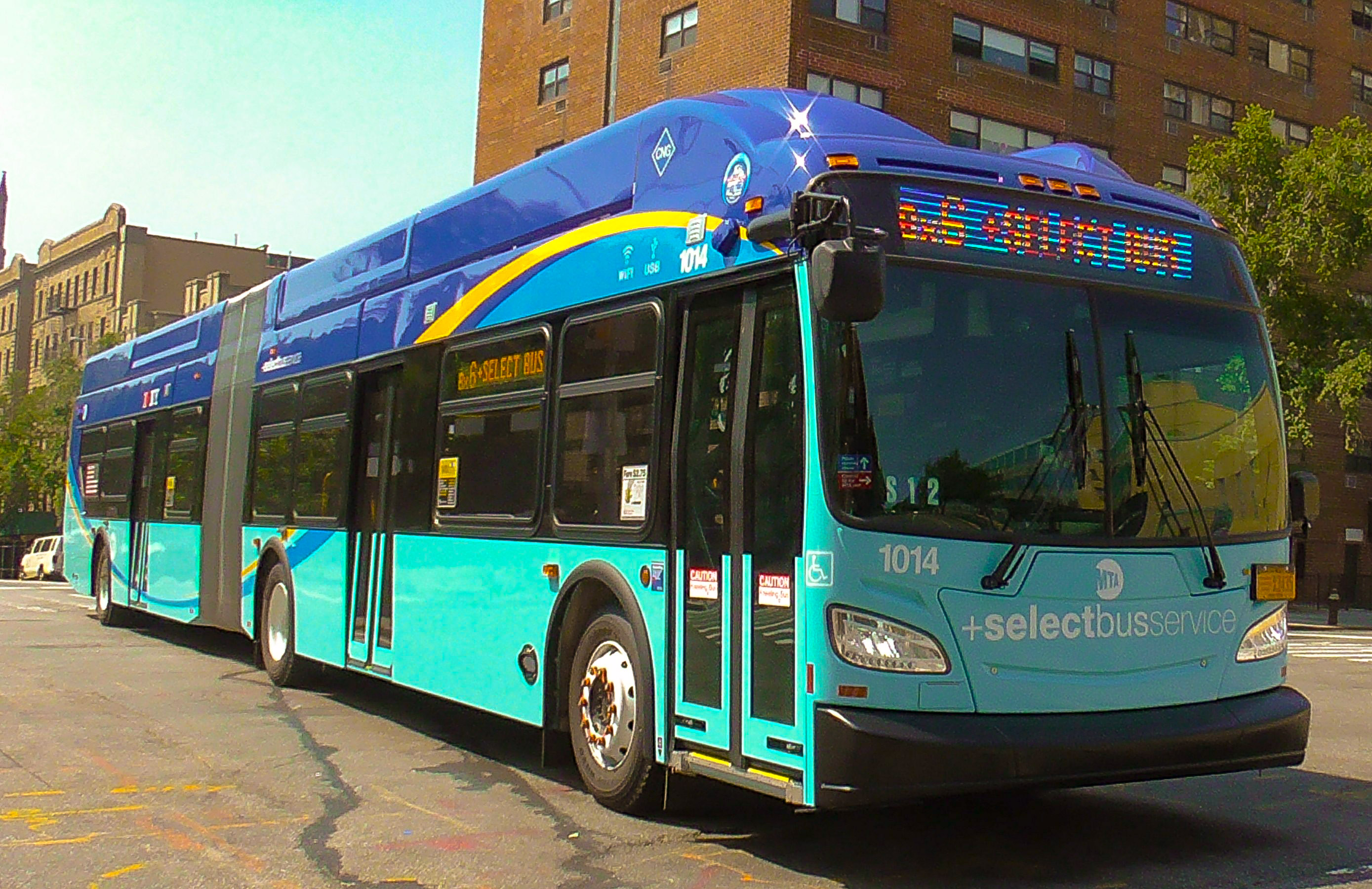 Here's the 2018 New Flyer Xcelsior XN60 CNG Artic 1014 on the Bx6 +Select Bus Service+ in action in Washington Heights in Manhattan